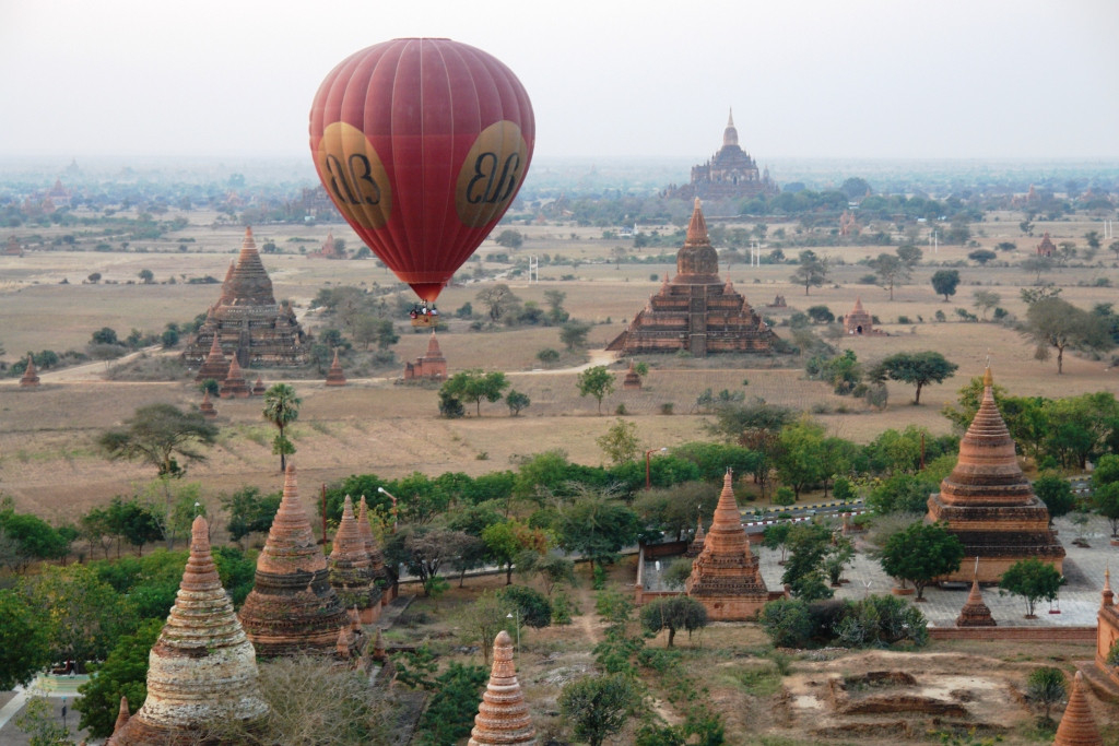 Balloon over Bagan